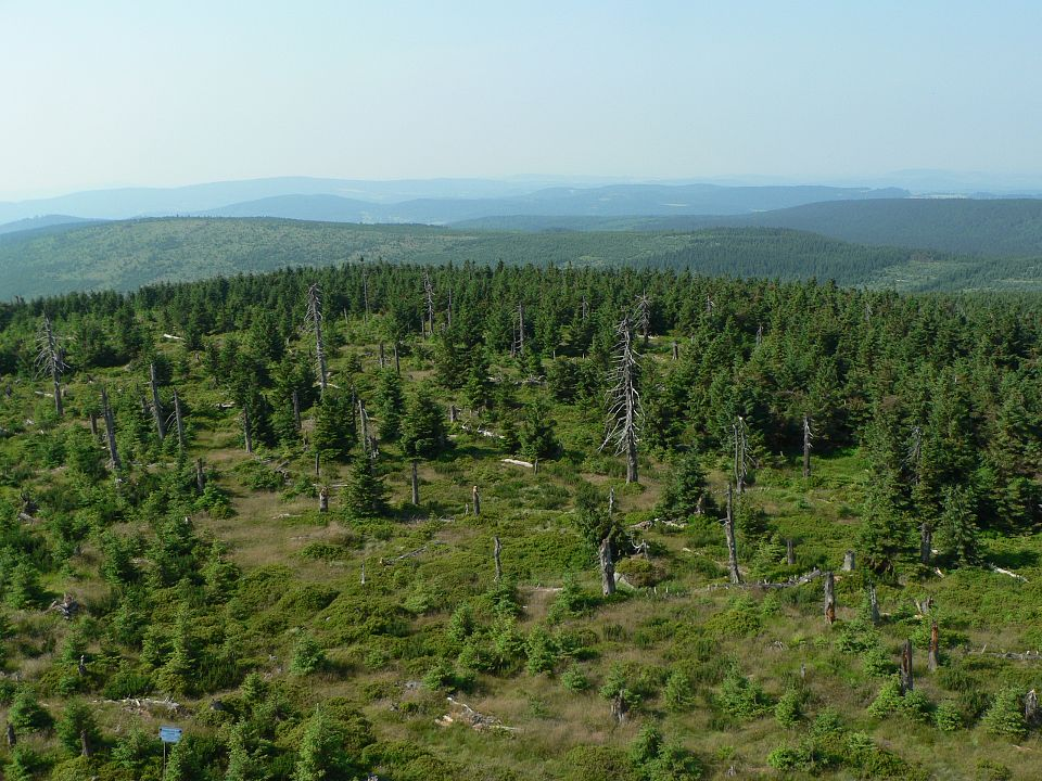 Primaveal forest Jizera, Jizera Mountains, Czech Republic